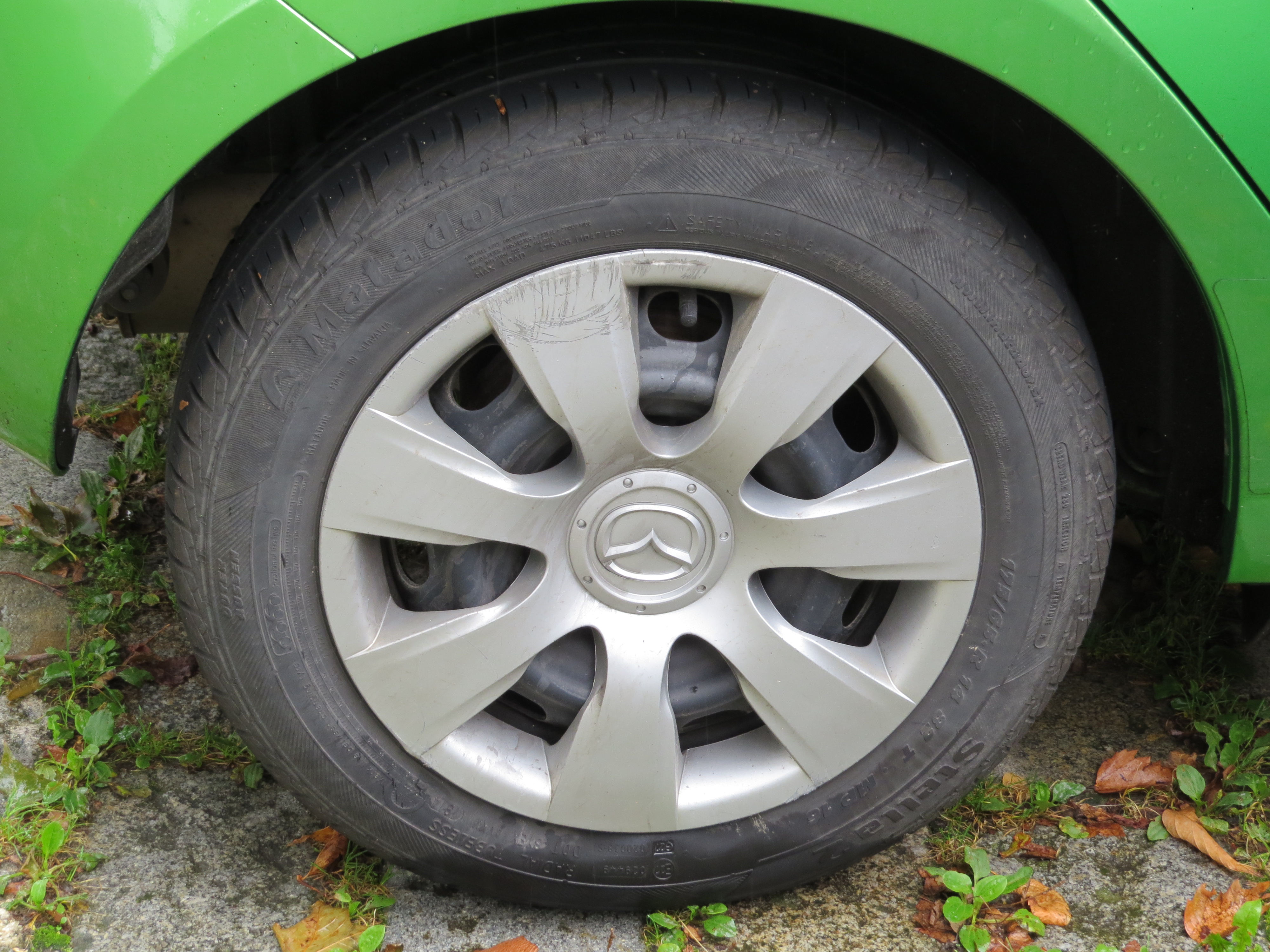 Matador Stella 2 175/65 R 14 tire at Bahnhof Melk